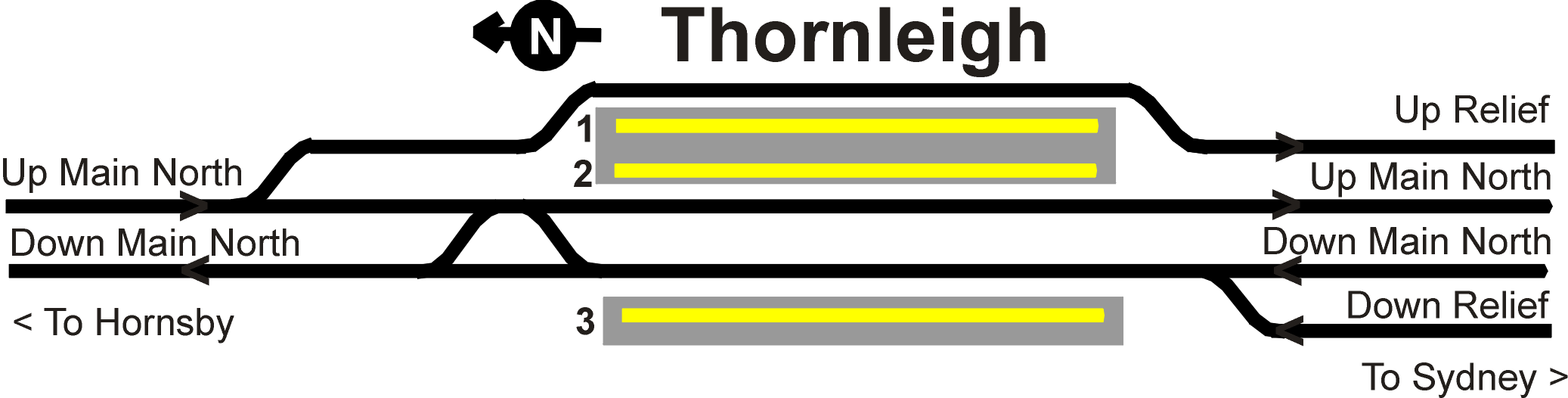 Track layout at Thornleigh railway station, Sydney